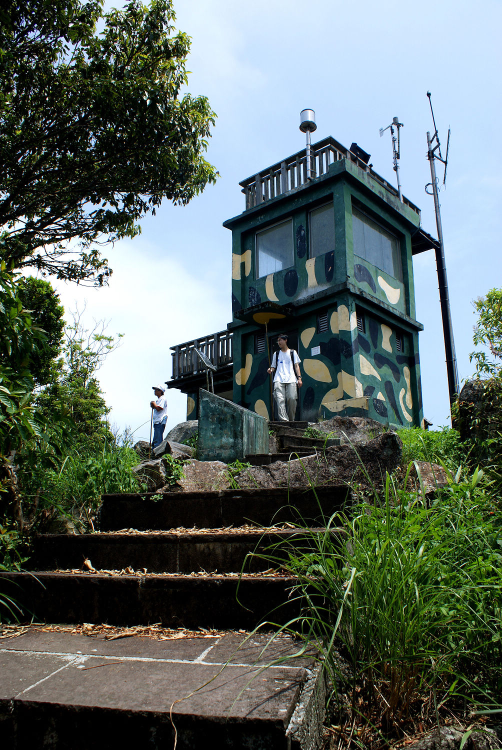 The top of Gueishan Island.